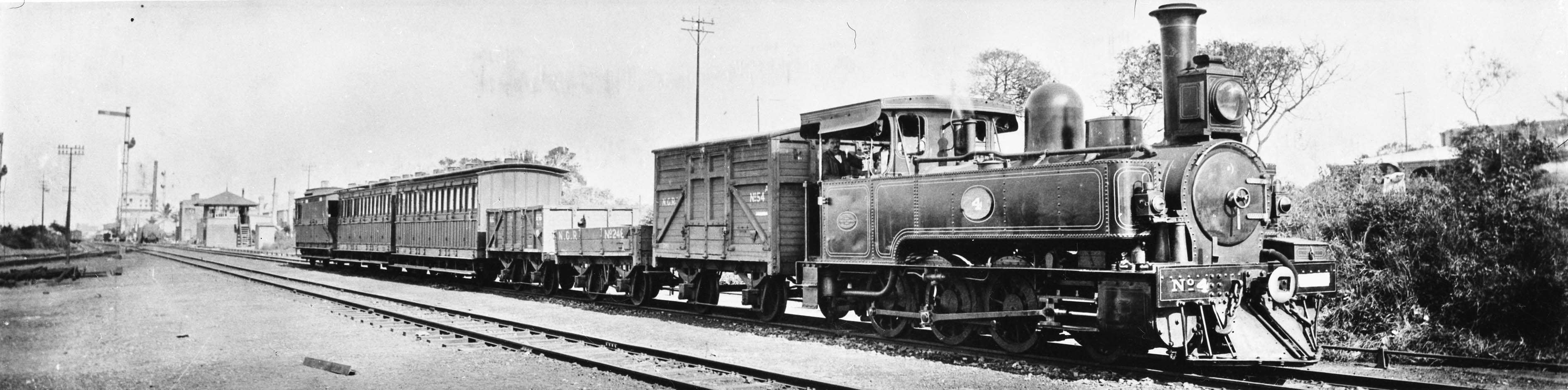 Natal Government Railway no. 4 on an NGR-Mixed-train, 2-6-0T of 1877, after modification